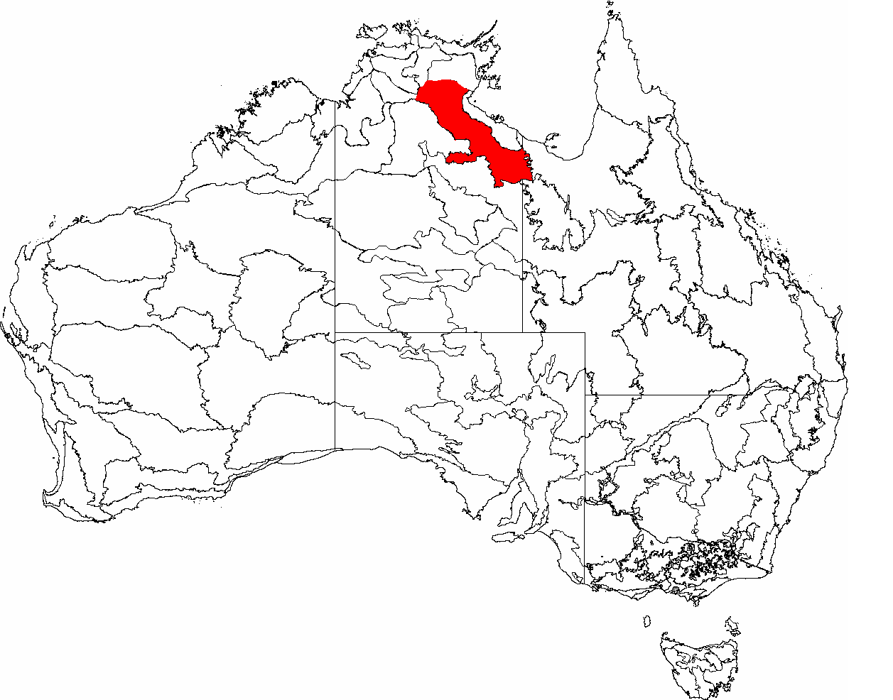 This is a map of the Interim Biogeographic Regionalisation of Australia (IBRA), with state boundaries overlaid. The Gulf Fall and Uplands region is shown in red.